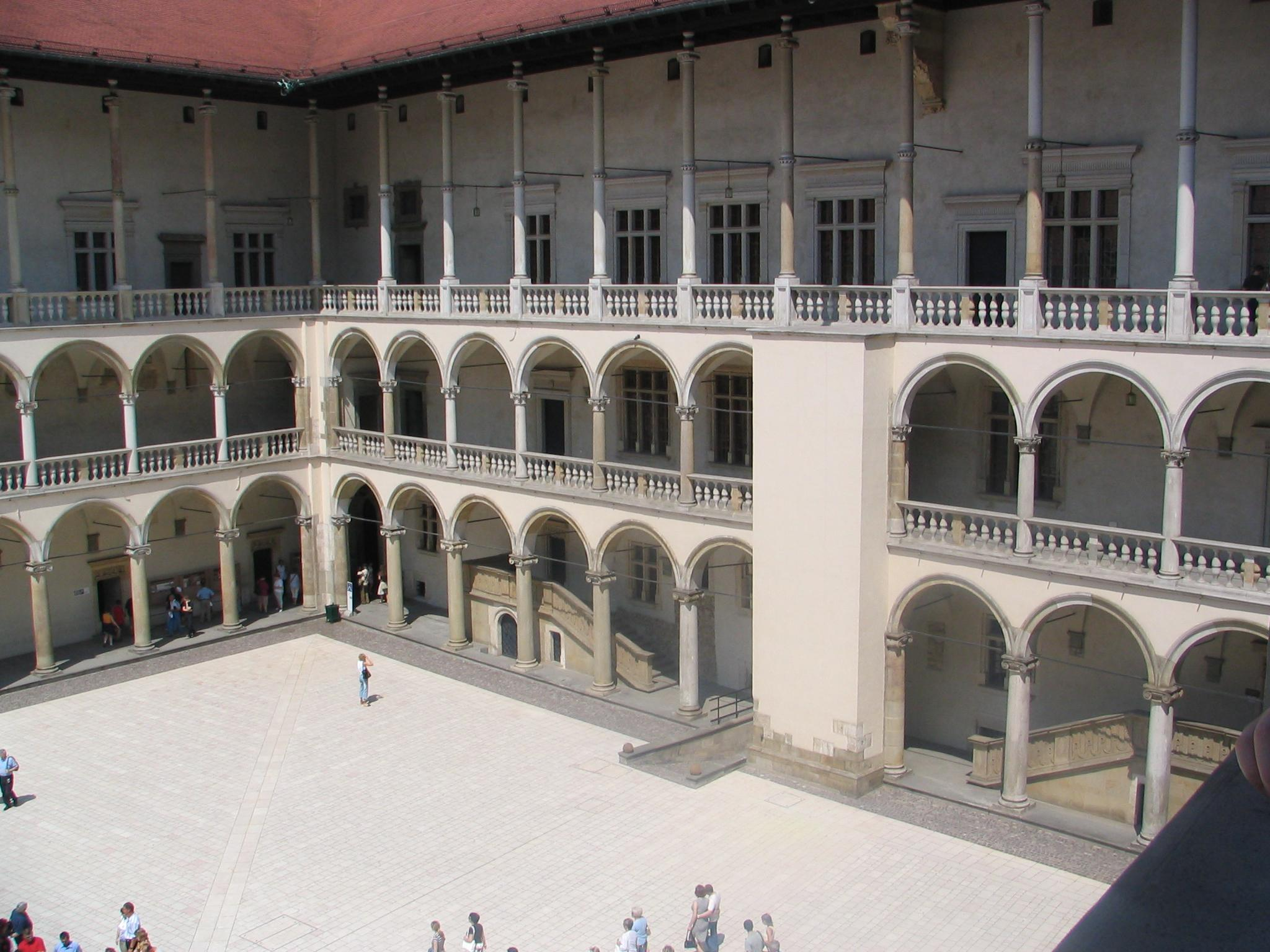 Wawel, The State Rooms Courtyard